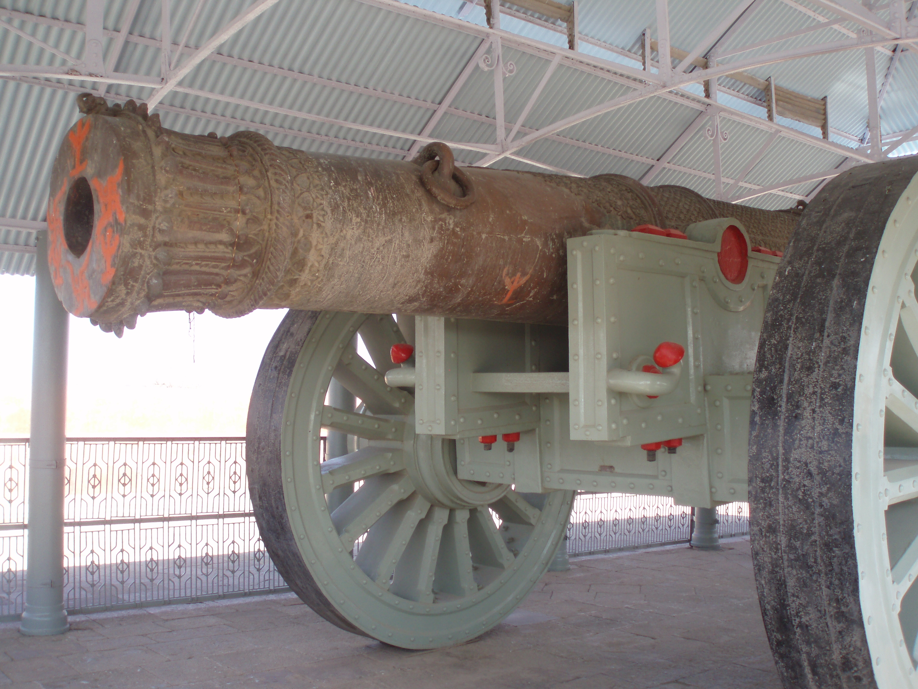 The Jaivana cannon at Jaigarh Fort (Jaipur, India) - reputed to be the largest wheeled cannon in the world.